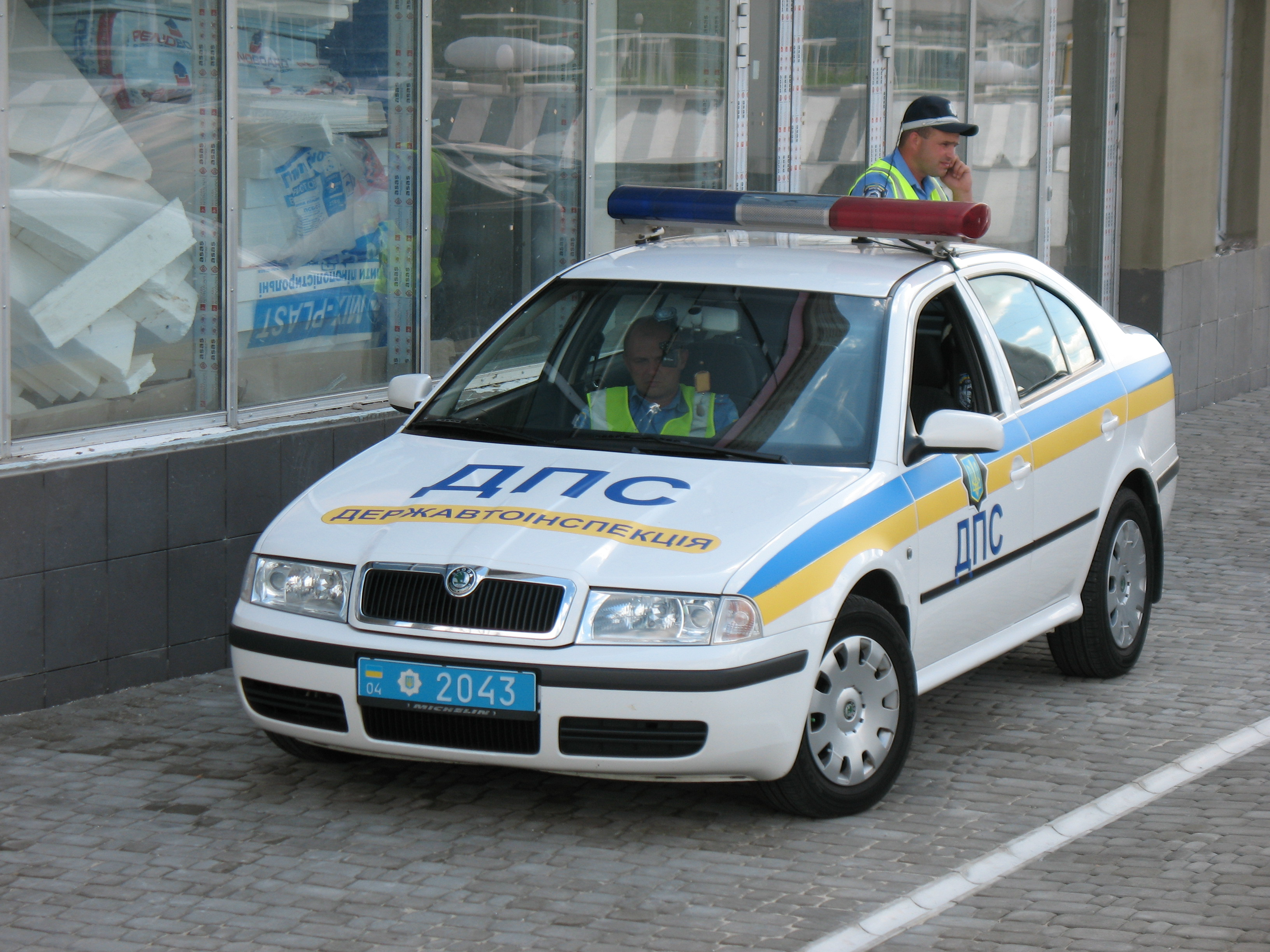 DPS Kharkov: "Octavia I" in traffic police.